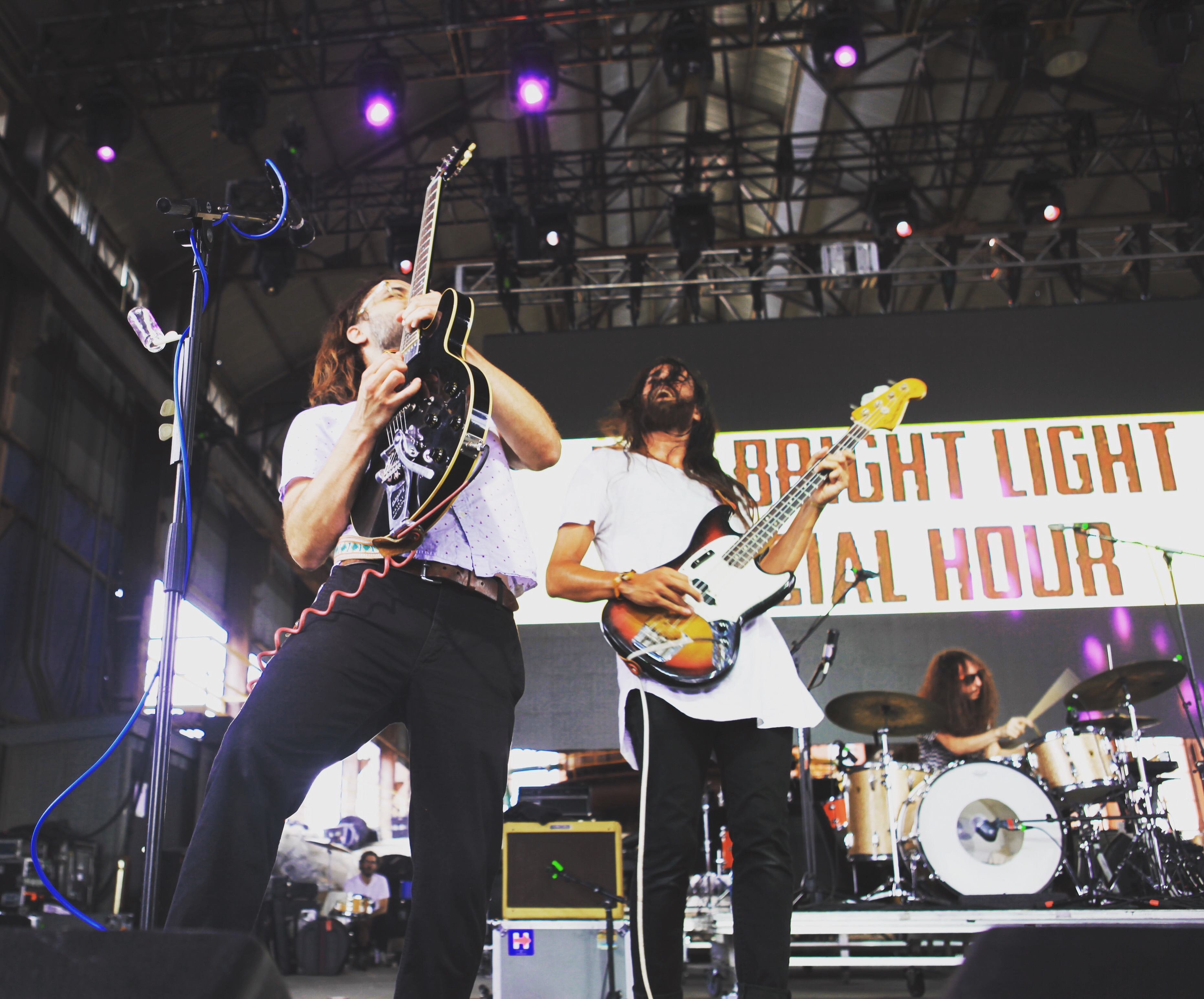 The Bright Light Social Hour performing at Sloss Festival 2016 in Birmingham, Alabama